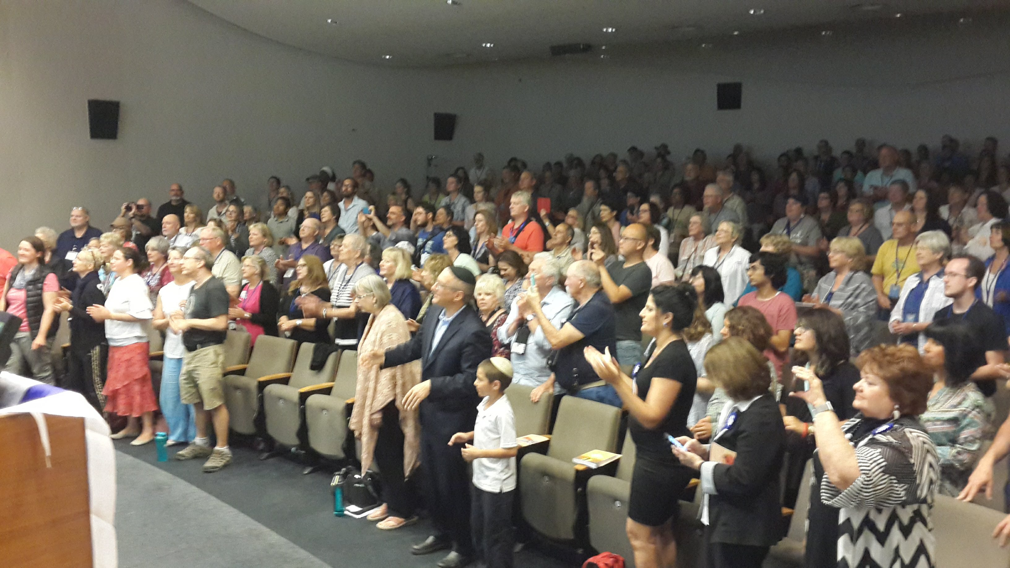 An audience of Jews and Christians on the 4th annual Day to Praise Israel Independence Day event held at Netanya Academic College, April 18, 2018.